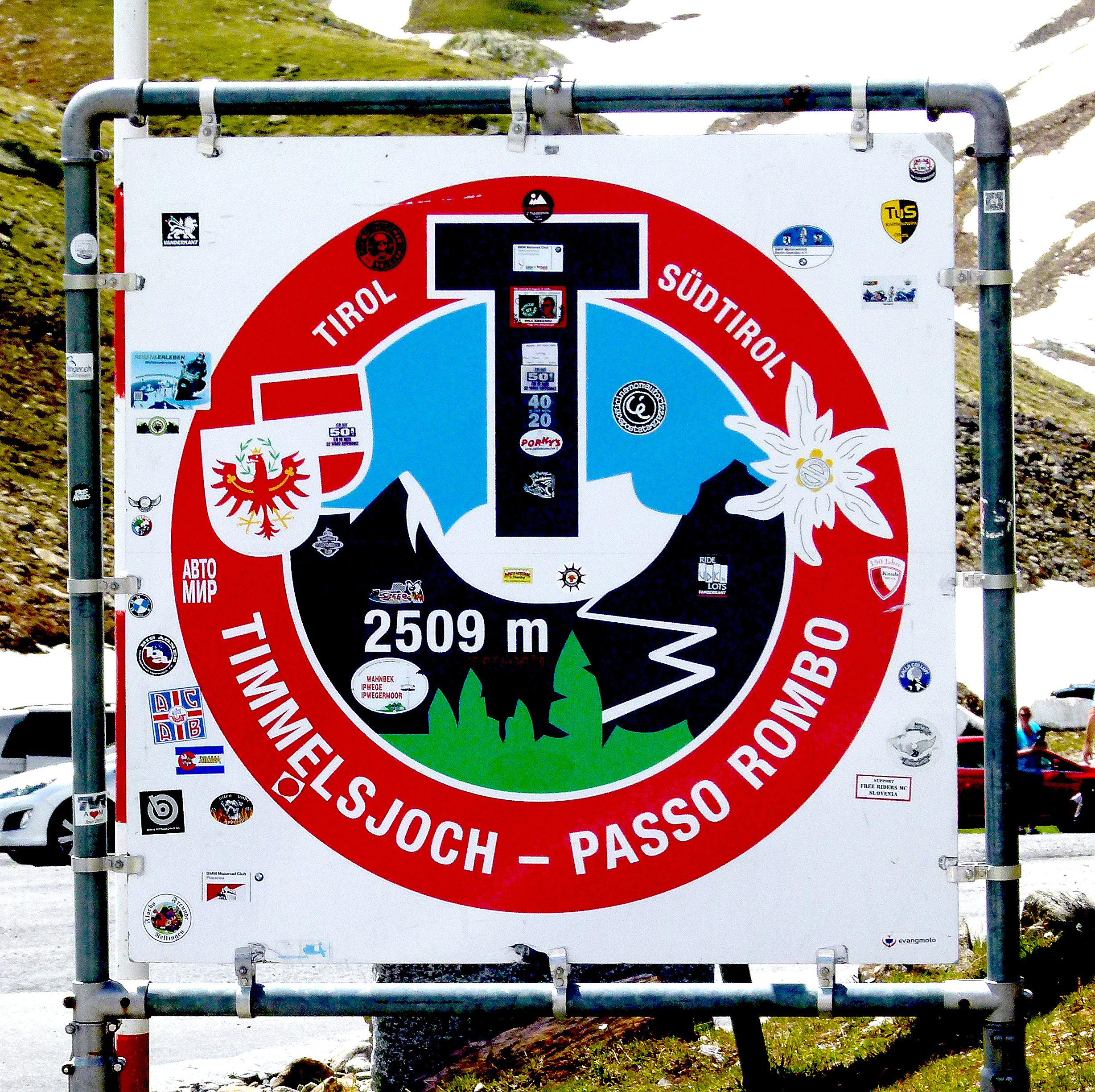 Timmelsjoch, Italy